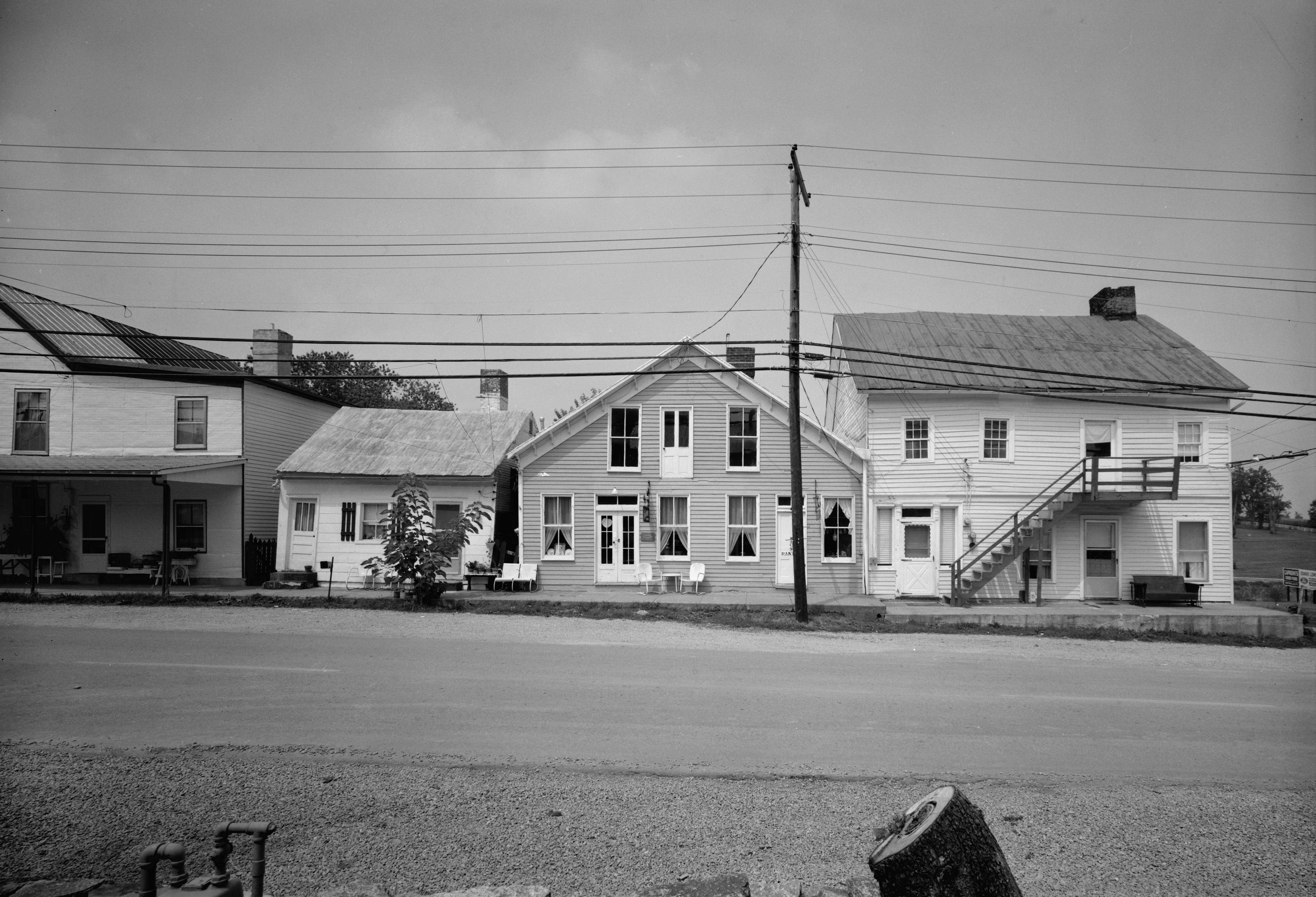 Houses in the Washington Historic District in Washington, Kentucky, United States. The district is listed on the National Register of Historic Places.